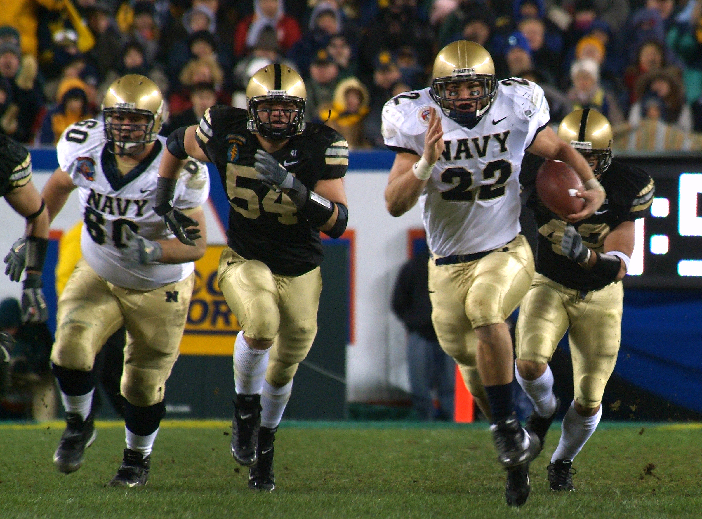 Philadelphia, PA. (Dec. 3, 2005) – U.S. Naval Academy Midshipman fullback Adam Ballard (22) rushes for one of two touchdowns while being persued by Army defenders Cason Shrode (54) and Taylor Justice (42). This was the 106th Army vs. Navy Football game, held for the third consecutive year at Lincoln Financial Field. The Navy defeated the Black Knights of Army 42-23. The Mids have now won the past four Army-Navy battles, and now lead the series at 50-49-7. Navy (7-4) has accepted an invitation to play in the Poinsettia Bowl in San Diego on Dec. 22. U.S. Navy photo by Chief Photographer's Mate Johnny Bivera. (RELEASED)